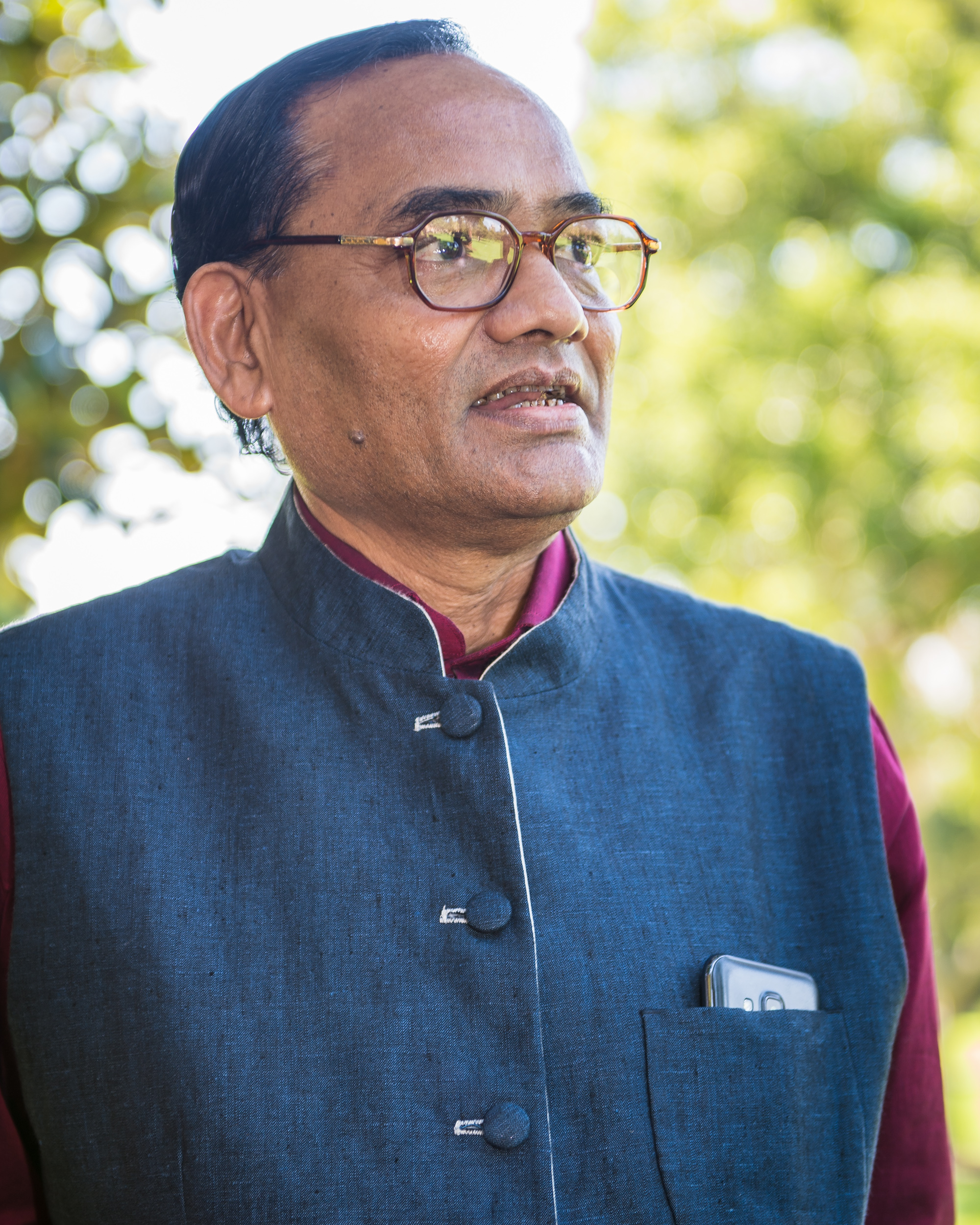 Goldman Environmental Prize winning campaigner Ramesh Agrawal in Sydney Australia